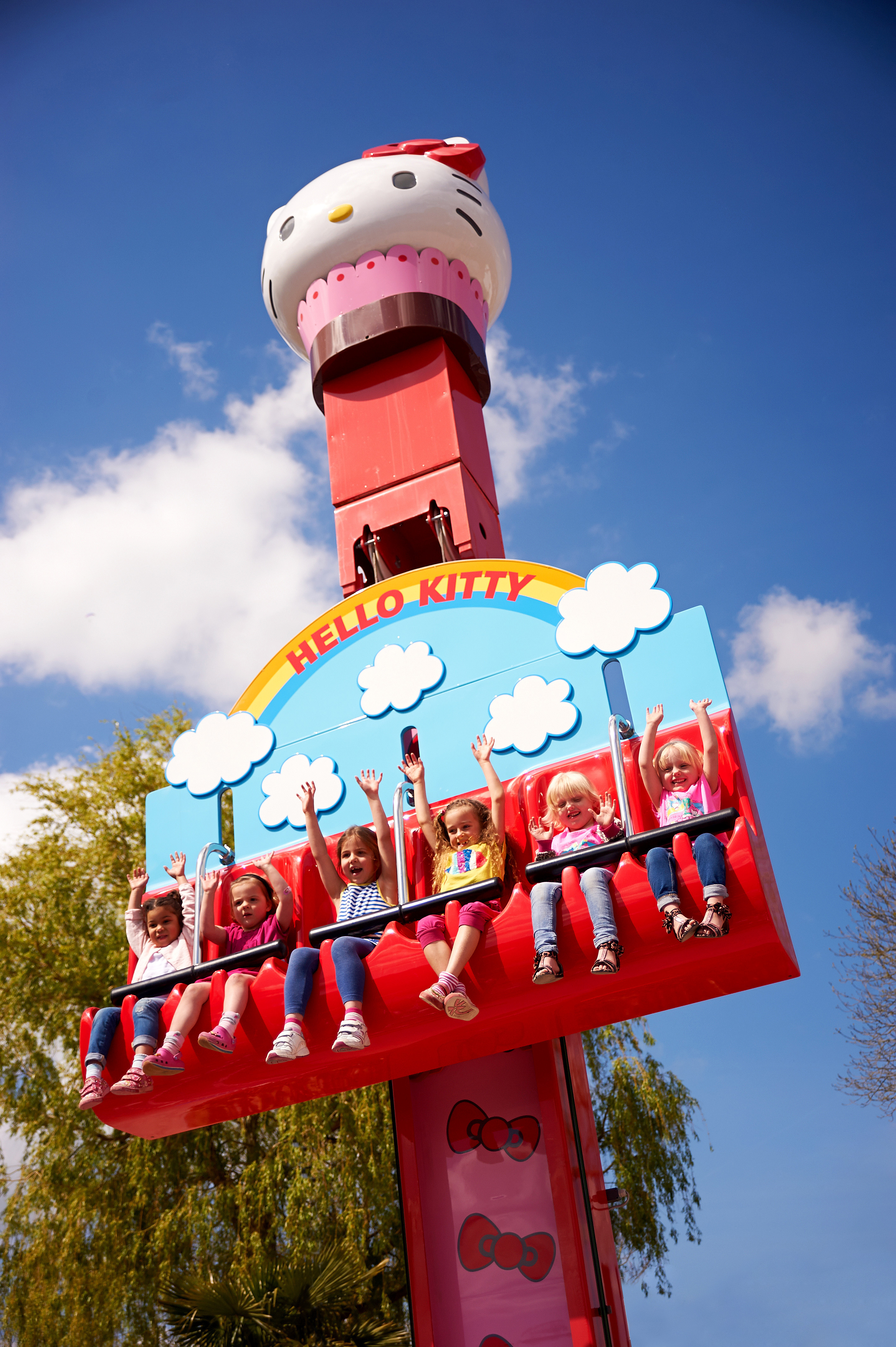 The Hopper Ride in Hello Kitty Secret Garden at Drusillas Park